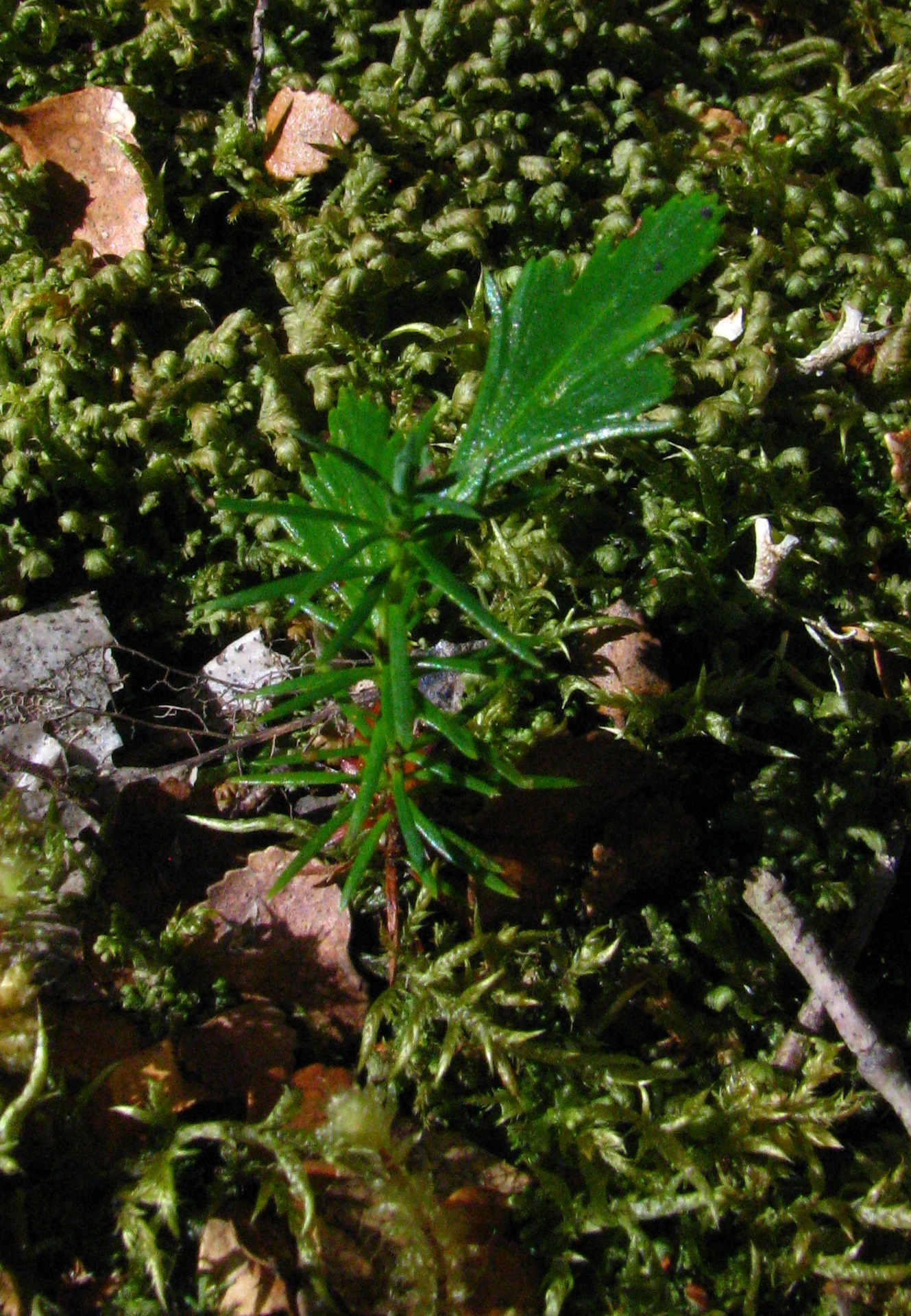 Phyllocladus aspleniifolius seedling showing the needle like leaves.